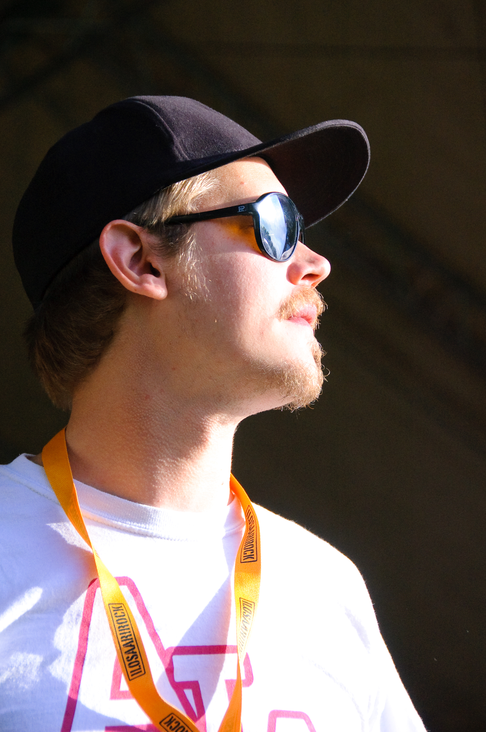 Finnish rapper Jodarok performing at the Ilosaarirock festival in Joensuu, Finland.